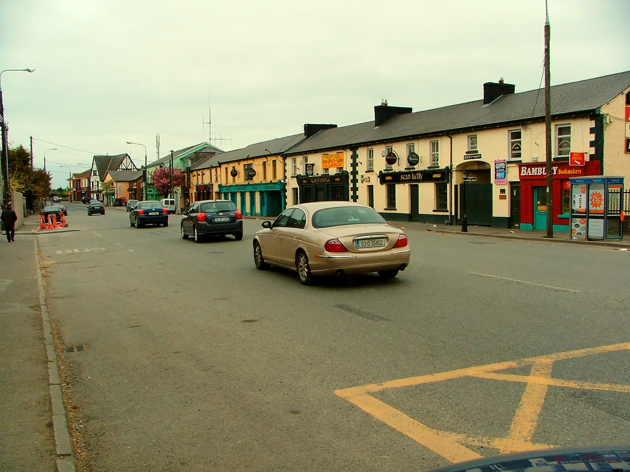 Main street Ashbourne